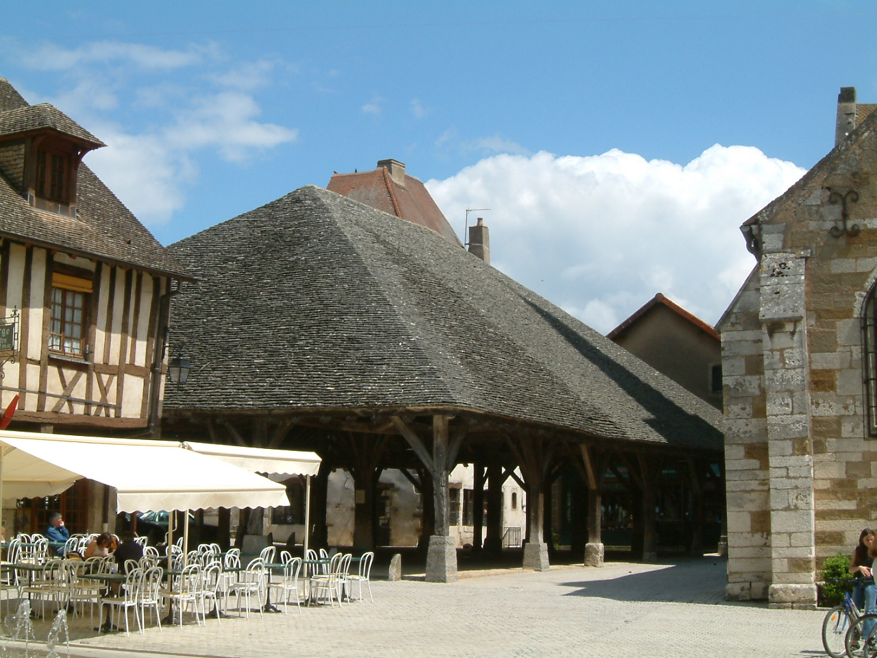 Nolay. Burgundy, FRANCE.